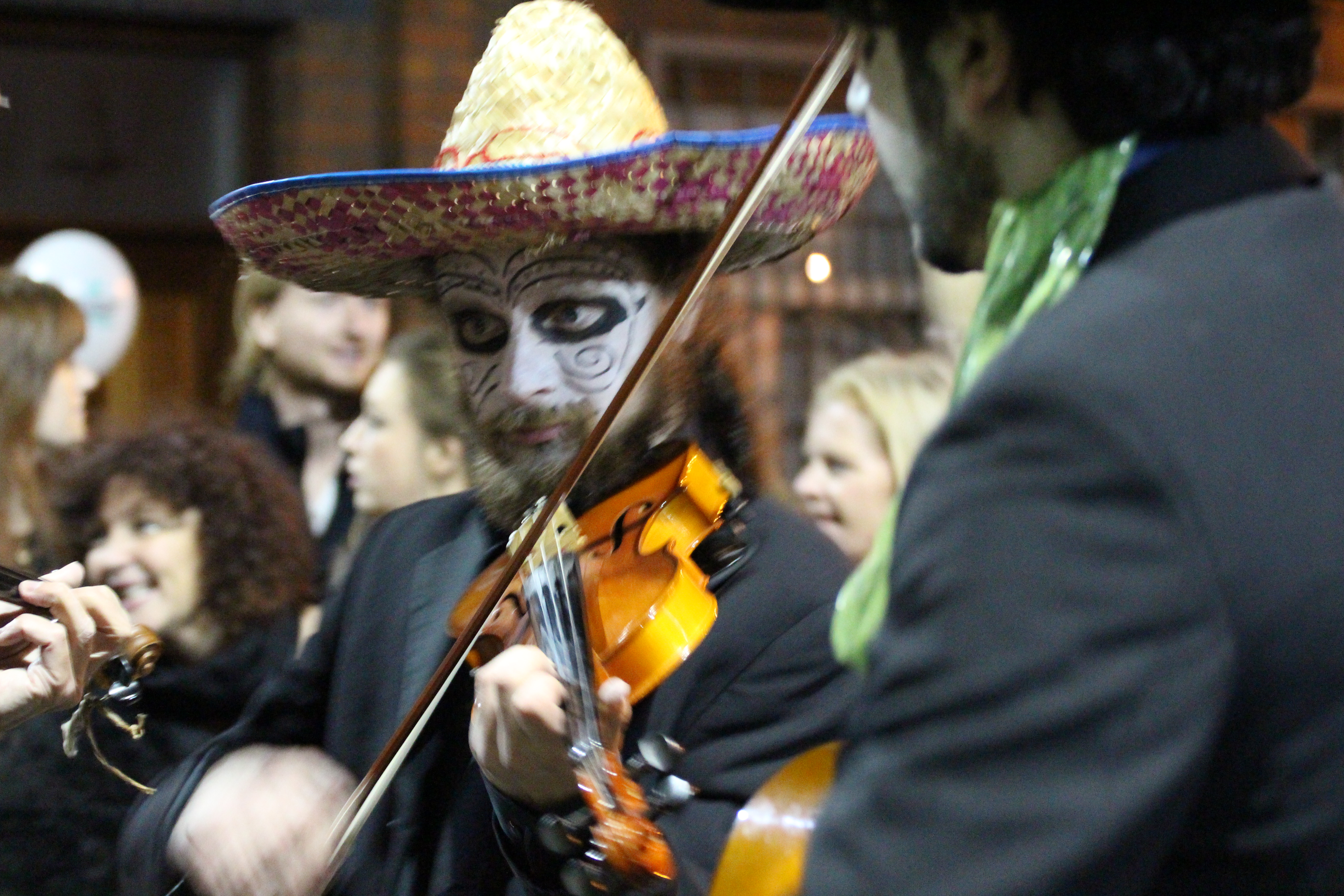 Musician, Culture Night Belfast, Hill Street, Belfast, Northern Ireland, September 2012